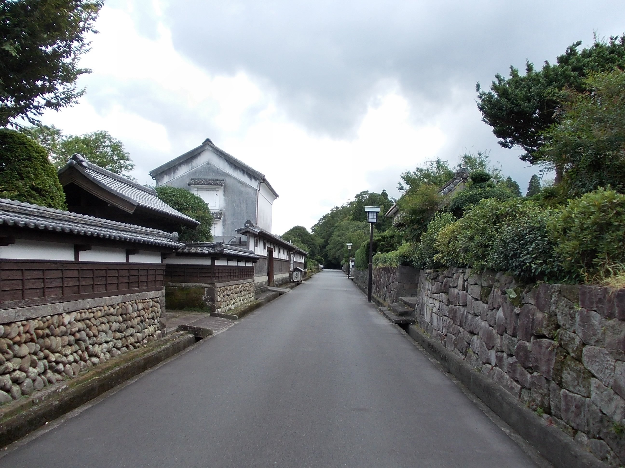 Yokobaba warrior quarter in Obi, Nichinan, Miyazaki, Japan